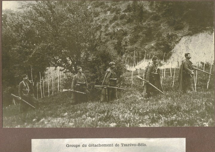 IMARO cheta of Tsarevo selo, Piyanec region